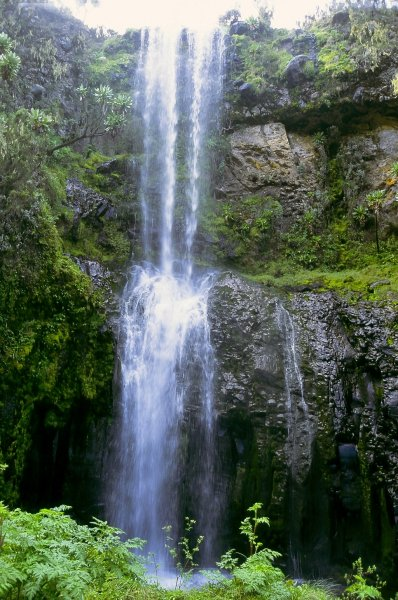 The Gates waterfall on (Nithi Falls)